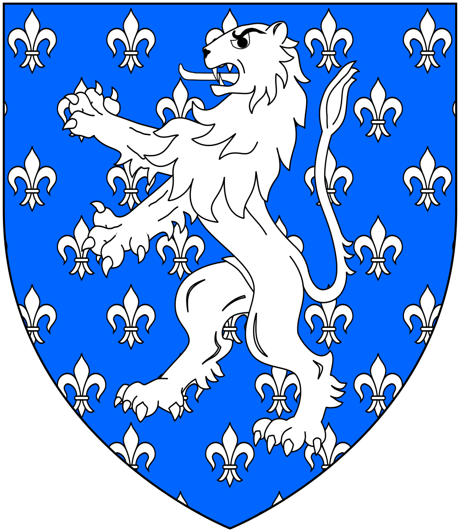 Arms of Holland of Weare, Devon: Azure semée-de-lys argent, a lion rampant of the second (Source: Vivian, Lt.Col. J.L., (Ed.) The Visitation of the County of Devon: Comprising the Heralds' Visitations of 1531, 1564 & 1620, Exeter, 1895, p.475, blazon re-phrased). Pole gives the lion as rampant gardant (Pole, Sir William (d.1635), Collections Towards a Description of the County of Devon, Sir John-William de la Pole (ed.), London, 1791, p.488). "Weare" is today's "Countess Weare" near Exeter, see Pole, p.232. This family was descended from Wikipedia:Robert de Holland, 1st Baron Holand (c. 1283 – 1328), son of Sir Robert de Holland of Upholland, Lancashire. (See Vivian, p.475)